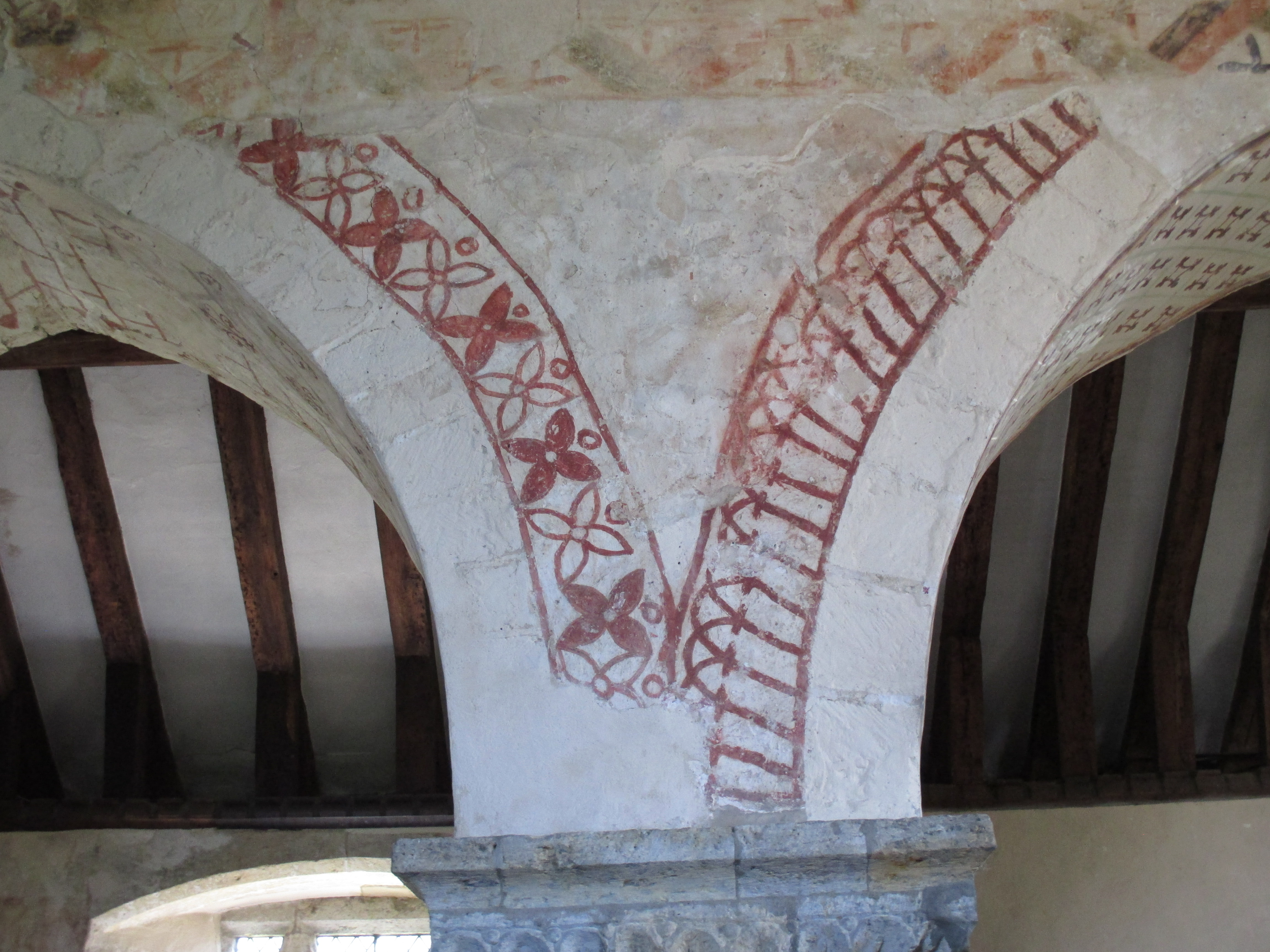 Spandrel with 12th-century frescoes in St Mary's Church, West Chiltington, West Sussex.